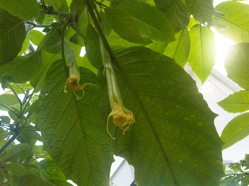 Brugmansia × candida 'Grand Marnier' in Kew Gardens.